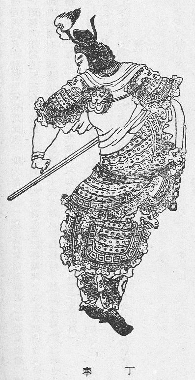 Portrait of the officer Ding Feng from a Qing Dynasty edition of The Romance of the Three Kingdoms.